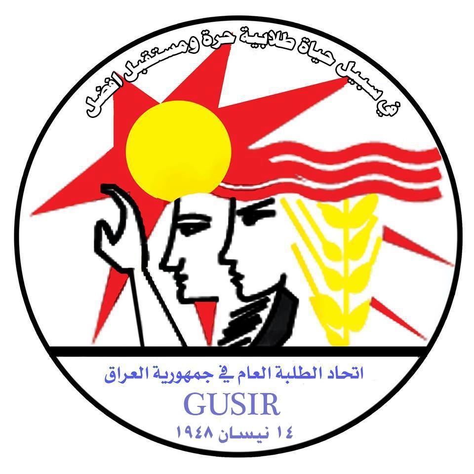 gusir